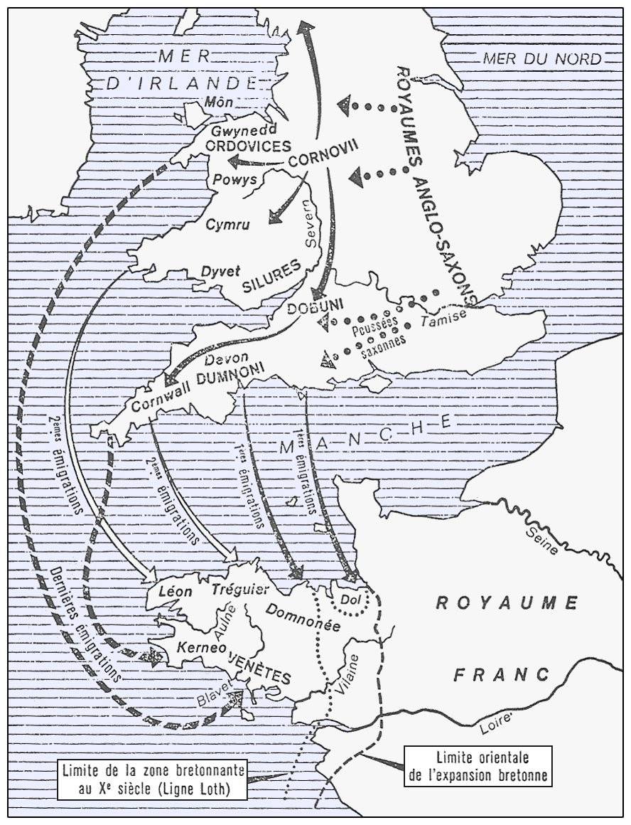 Breton emigration in the french region "Armorique"